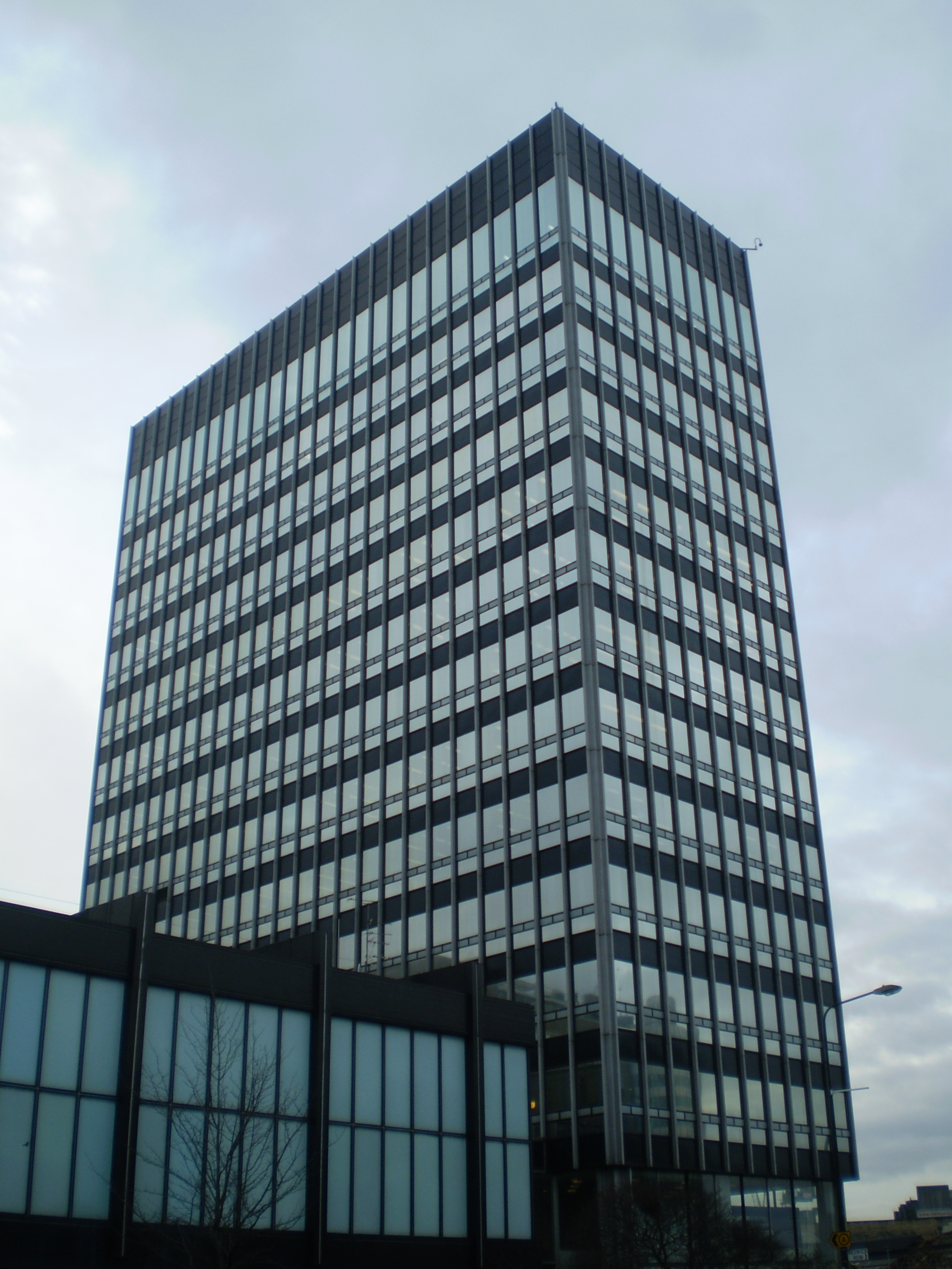 New Century Hall, Manchester City Centre